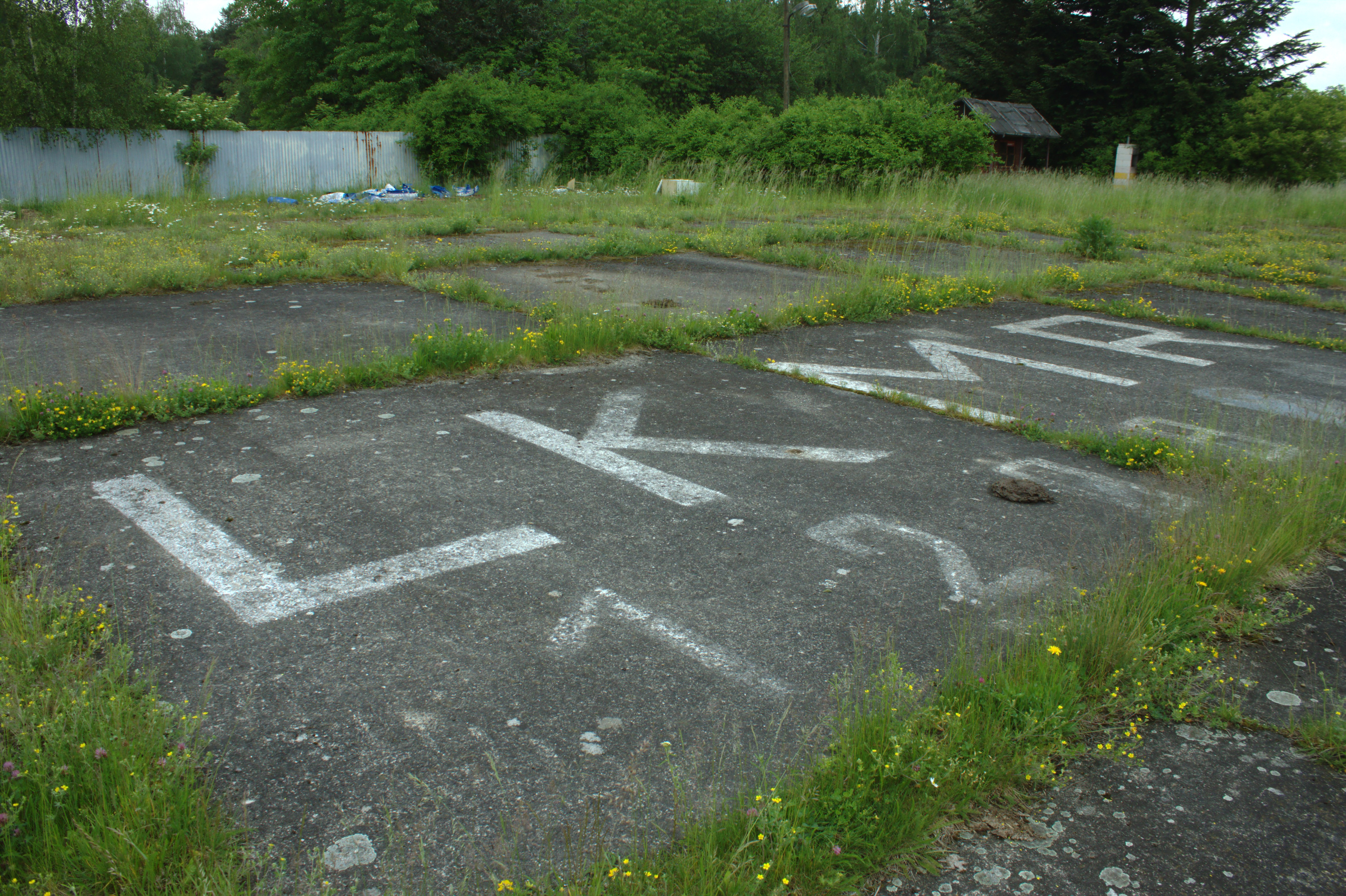 Taxiing area of the former Mariánské Lázně Airport